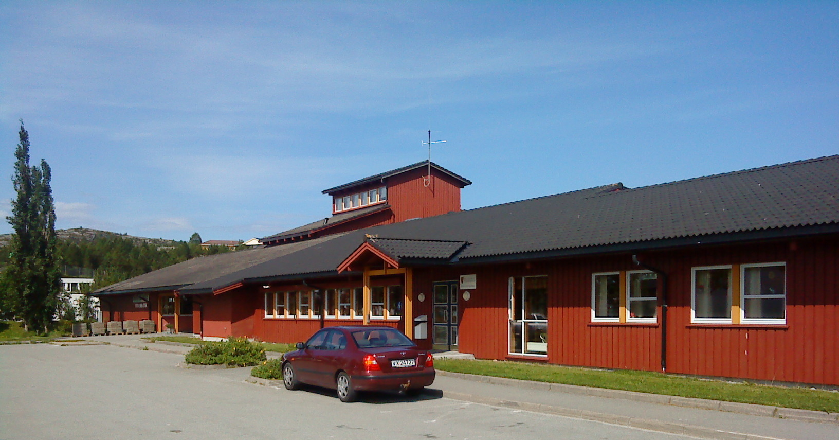 Hitra Videregående Skole, Fillan, Hitra, Sør-Trøndelag, Norway